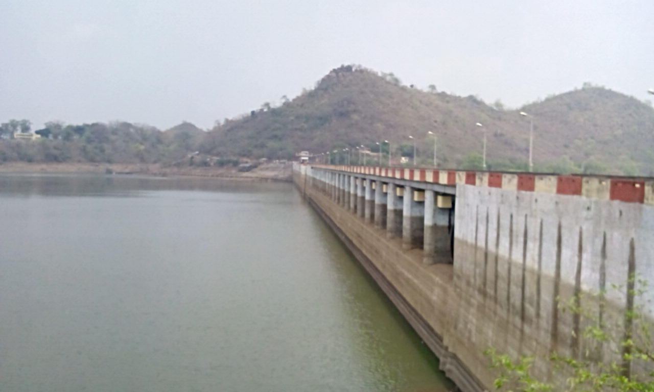 Massenjore dam in jharkhand